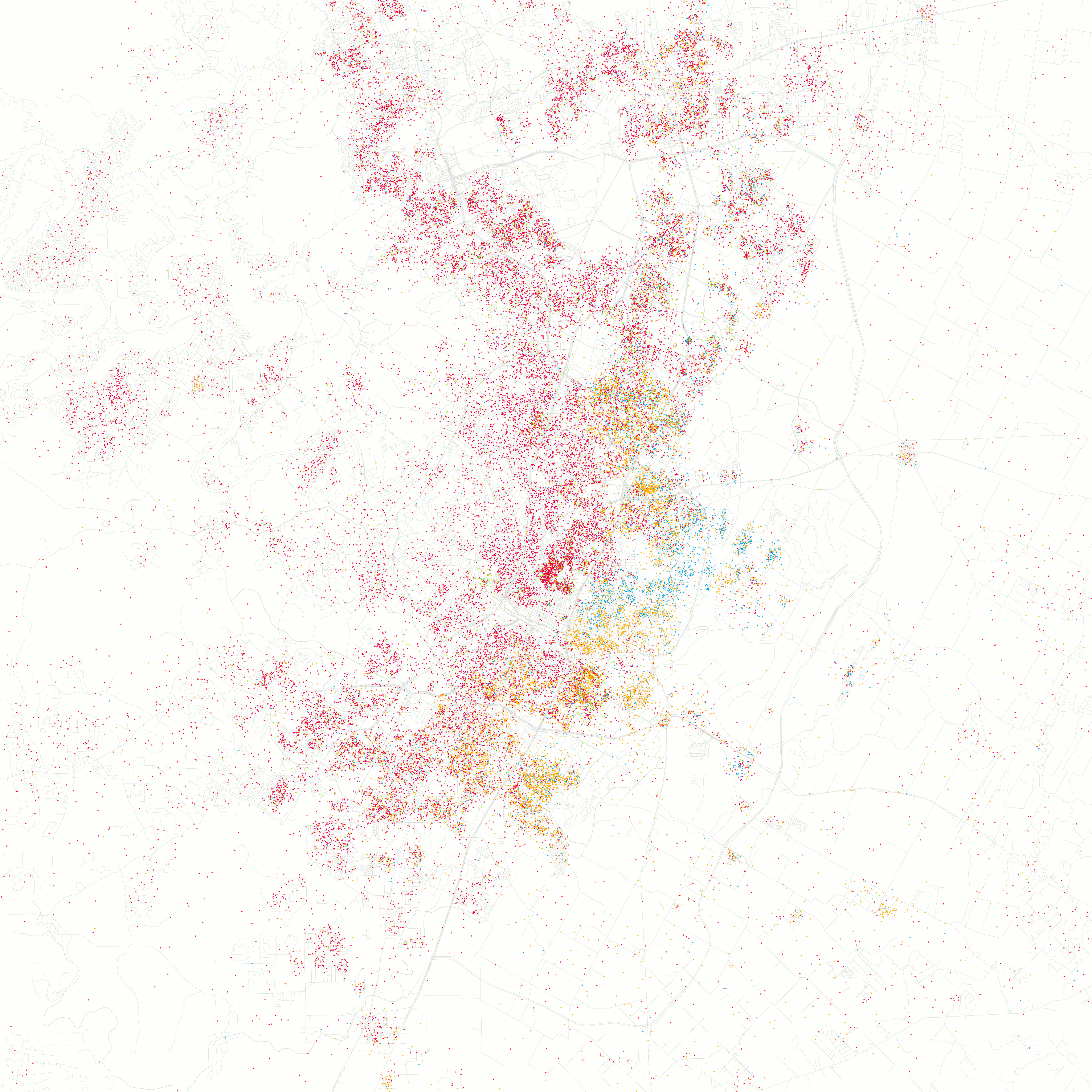 [Eric Fisher] was astounded by " Bill Rankin's map of Chicago's racial and ethnic divides and wanted to see what other cities looked like mapped the same way. To match his map, Red is White, Blue is Black, Green is Asian, Orange is Hispanic, Gray is Other, and each dot is 25 people. Data from Census 2000. Base map © OpenStreetMap, CC-BY-SA